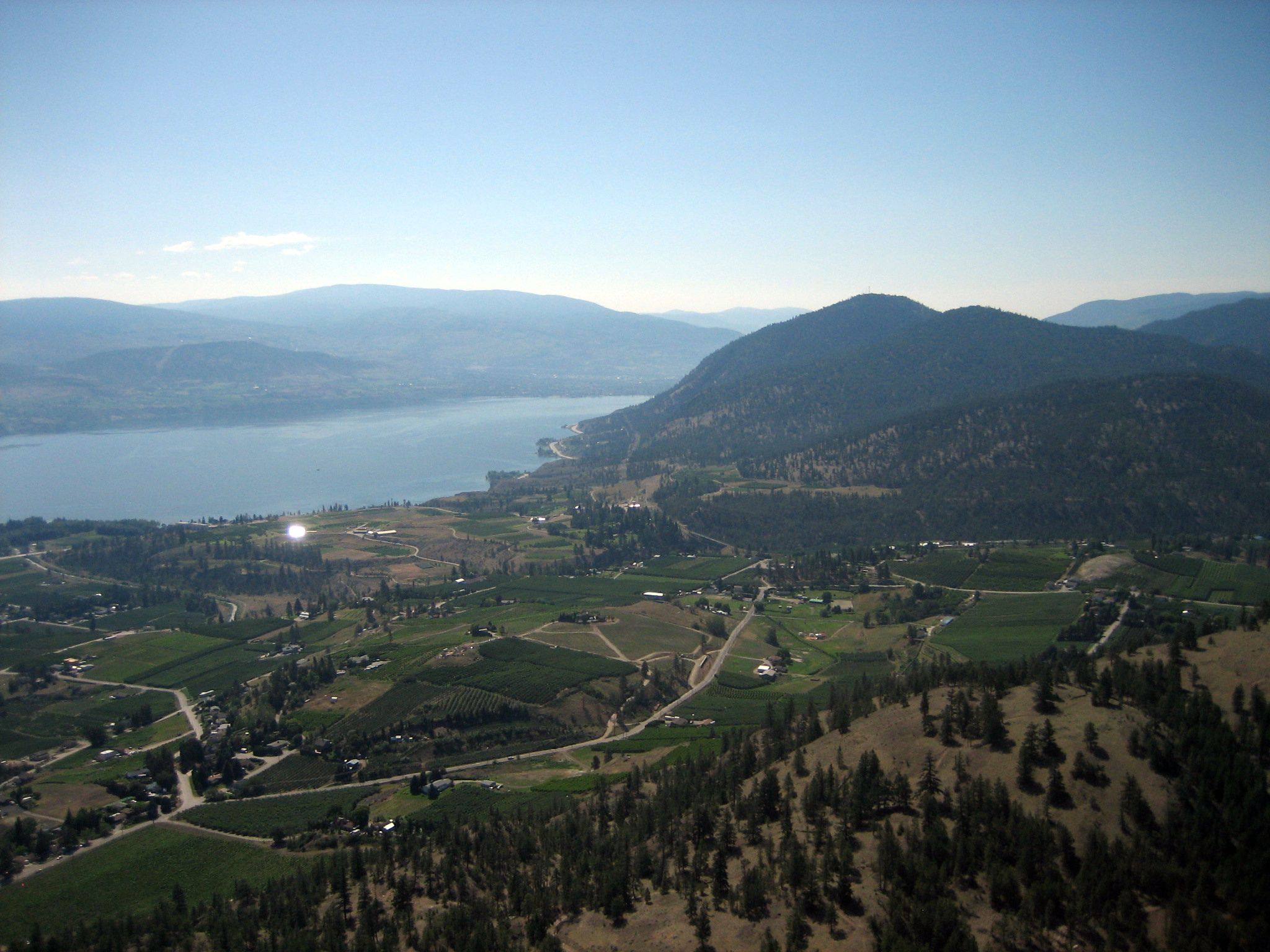 View from the Giants Head near Summerland, BC upon the Okanagan Lake